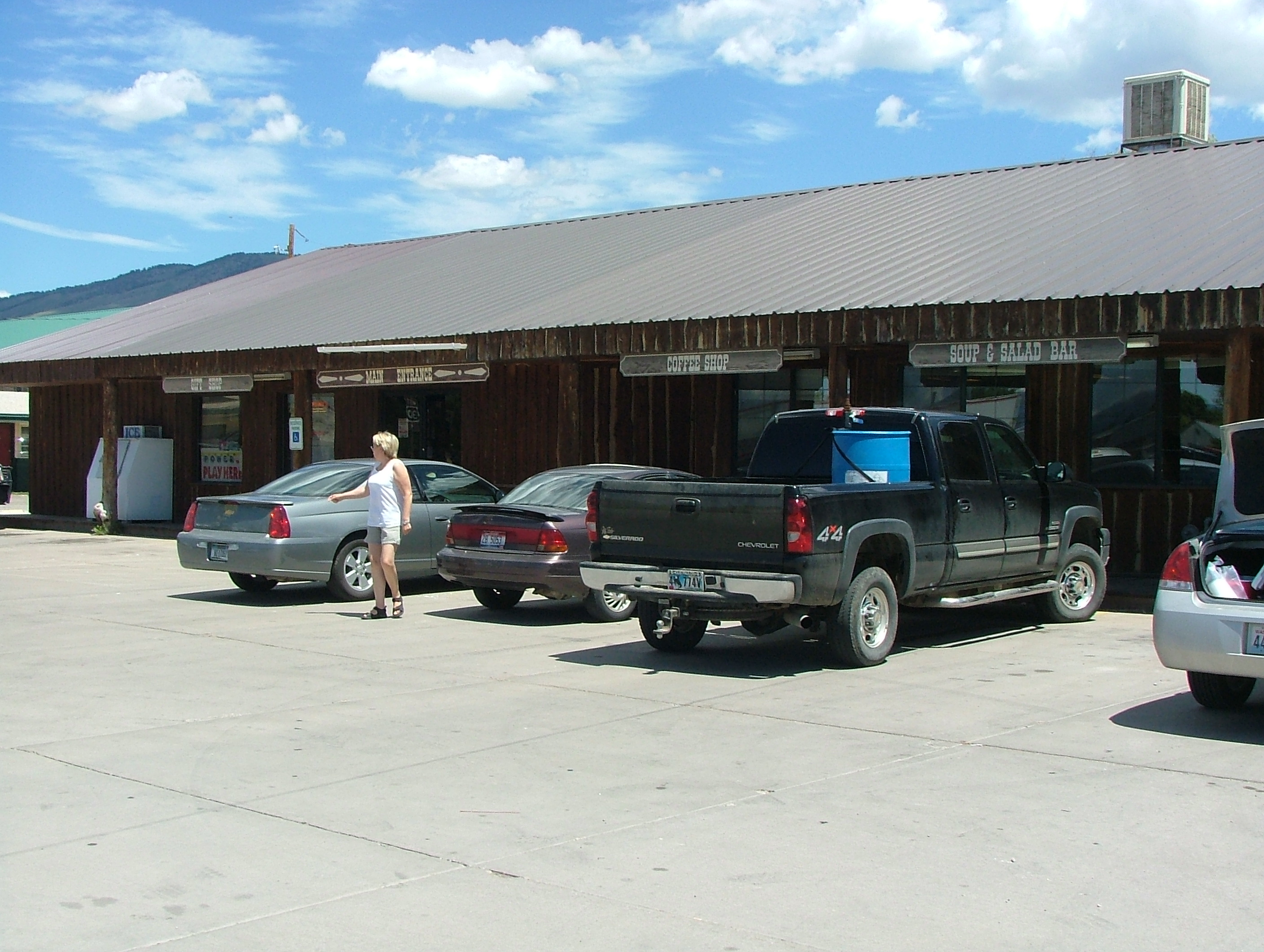 Butch Cassidy restaurant and Saloon, Montpelier, idaho